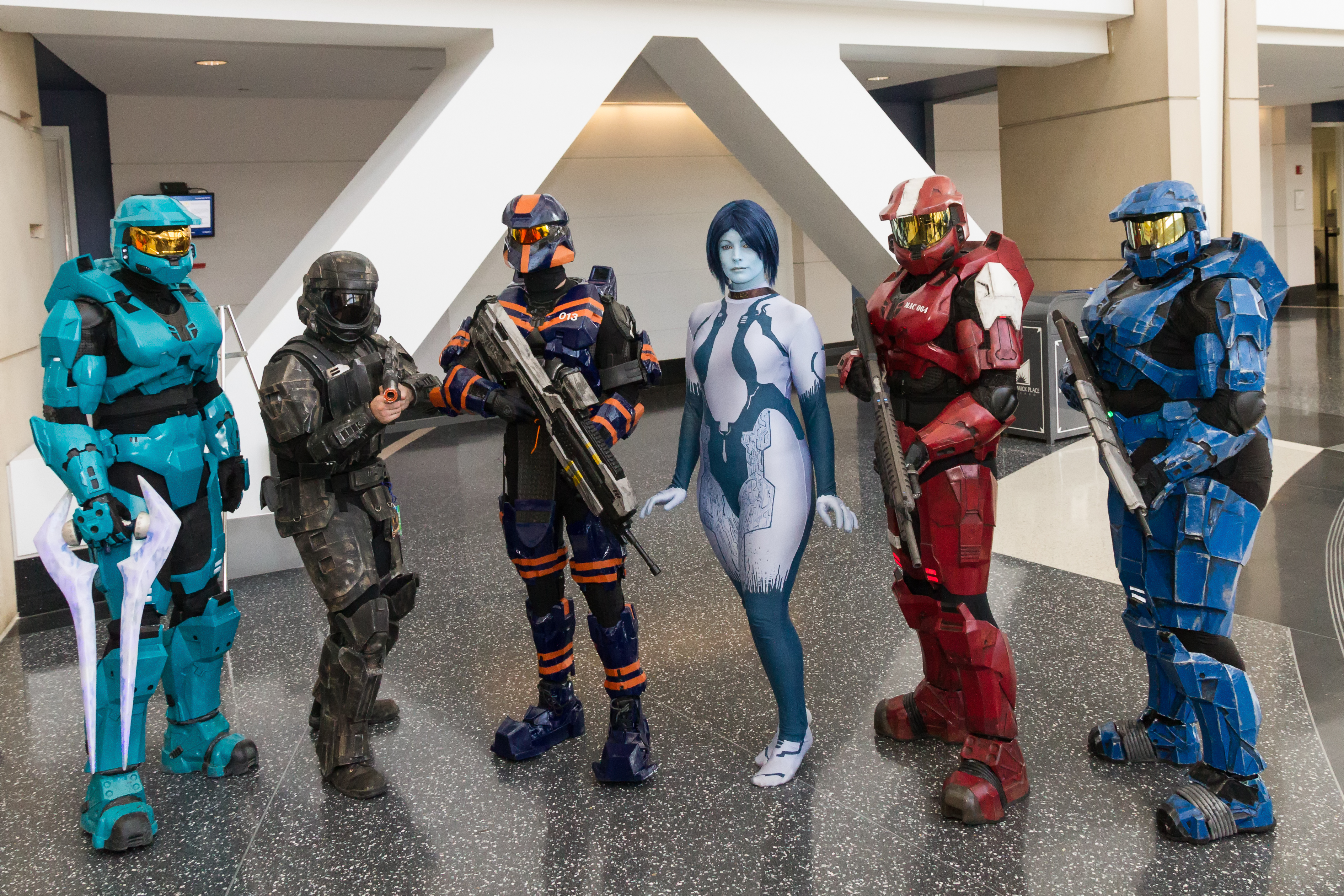 Cortana and her Master Chiefs